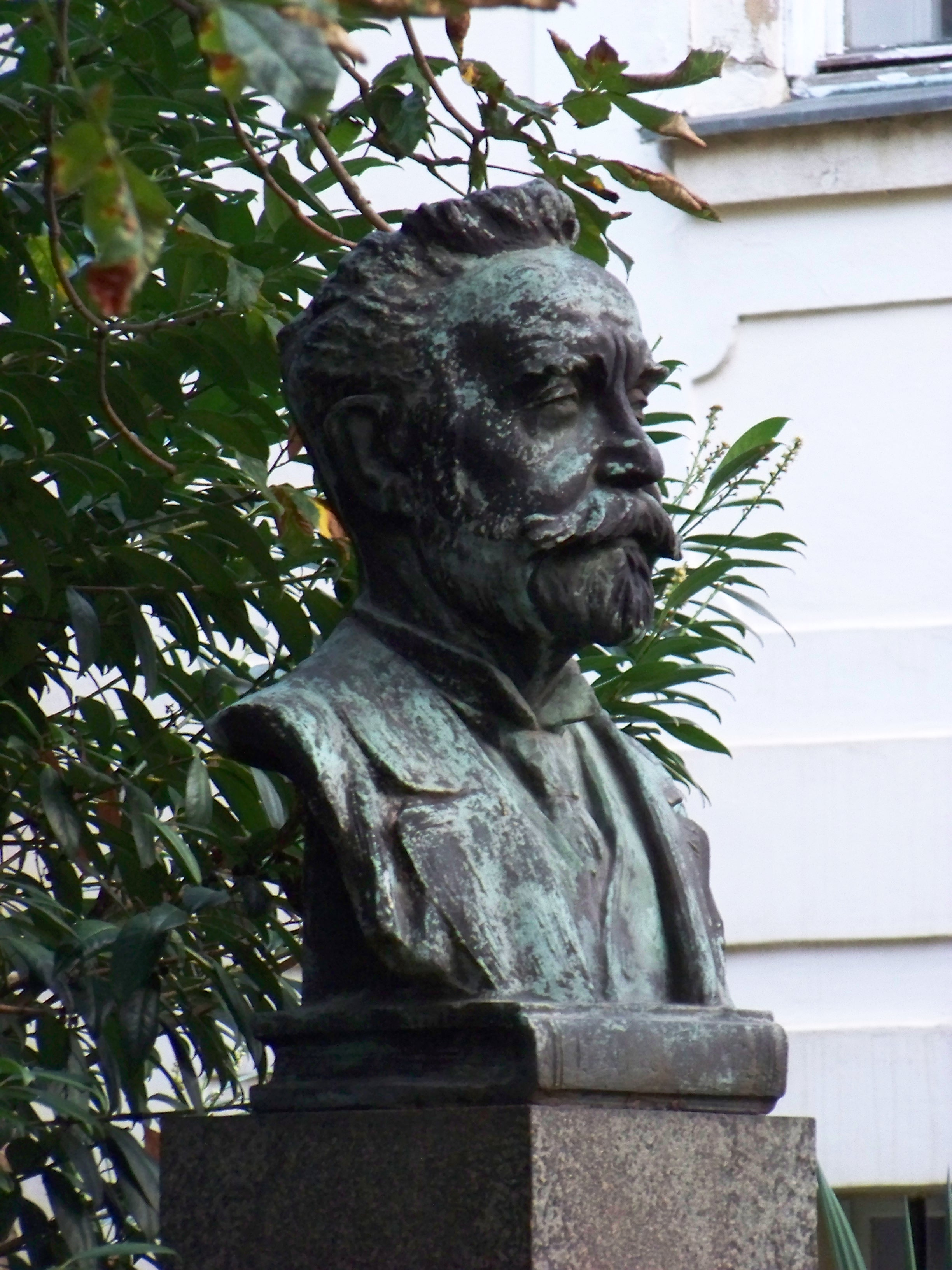 Rakovník I, Rakovník District, Central Bohemian Region, the Czech Republic. Žižka Square 1, Museum of Tomáš Garrigue Masaryk, former Cistercian house. A bust of Zikmund Winter.